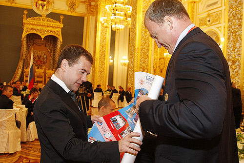 THE GRAND KREMLIN PALACE, MOSCOW. Meeting with medallists at the XIII Paralympics in Beijing. Two-times Paralympics champion (track and field) Alexei Ashapatov presented the President with a poster with the photos and autographs of the whole team.